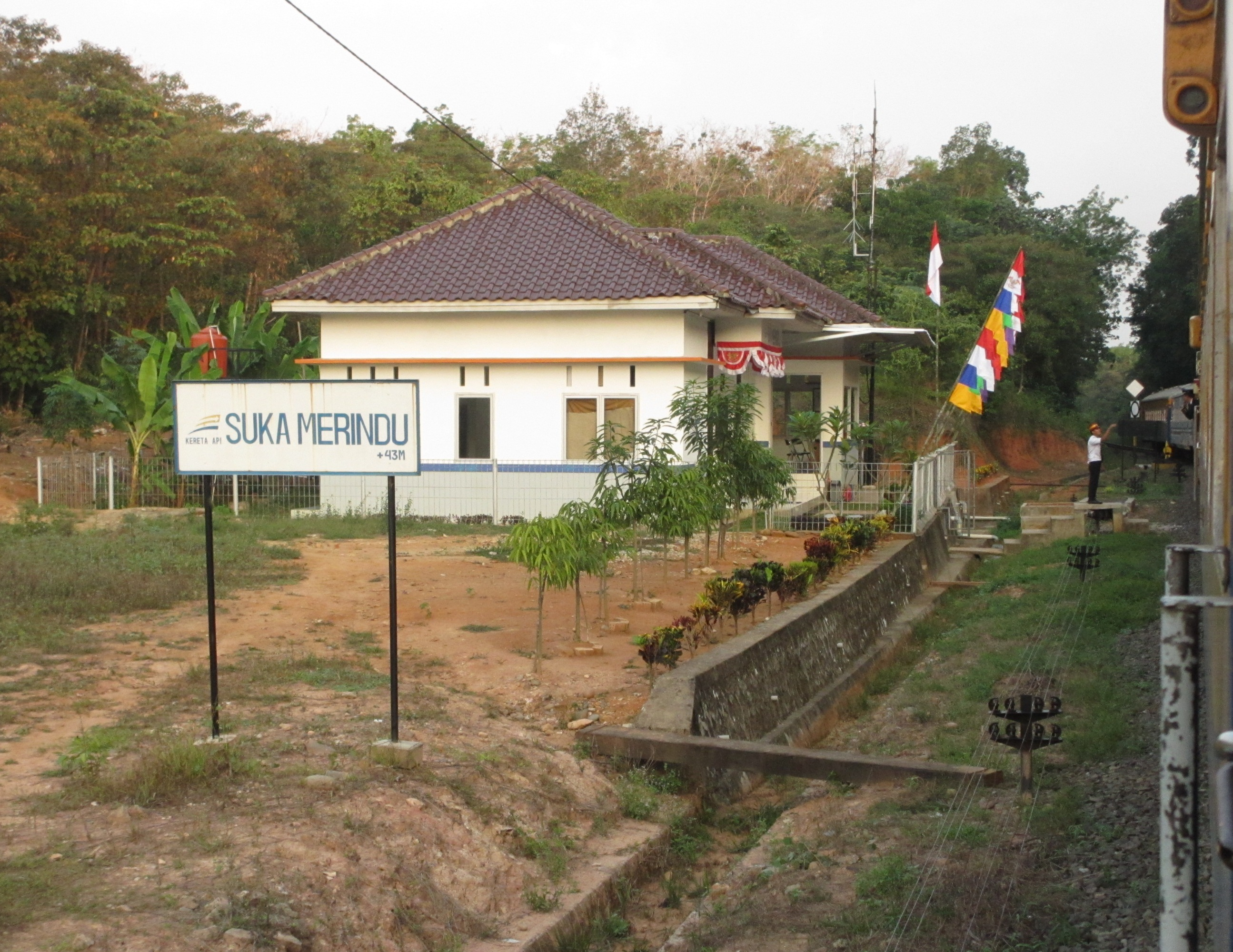 Sukamerindu Railway Station.